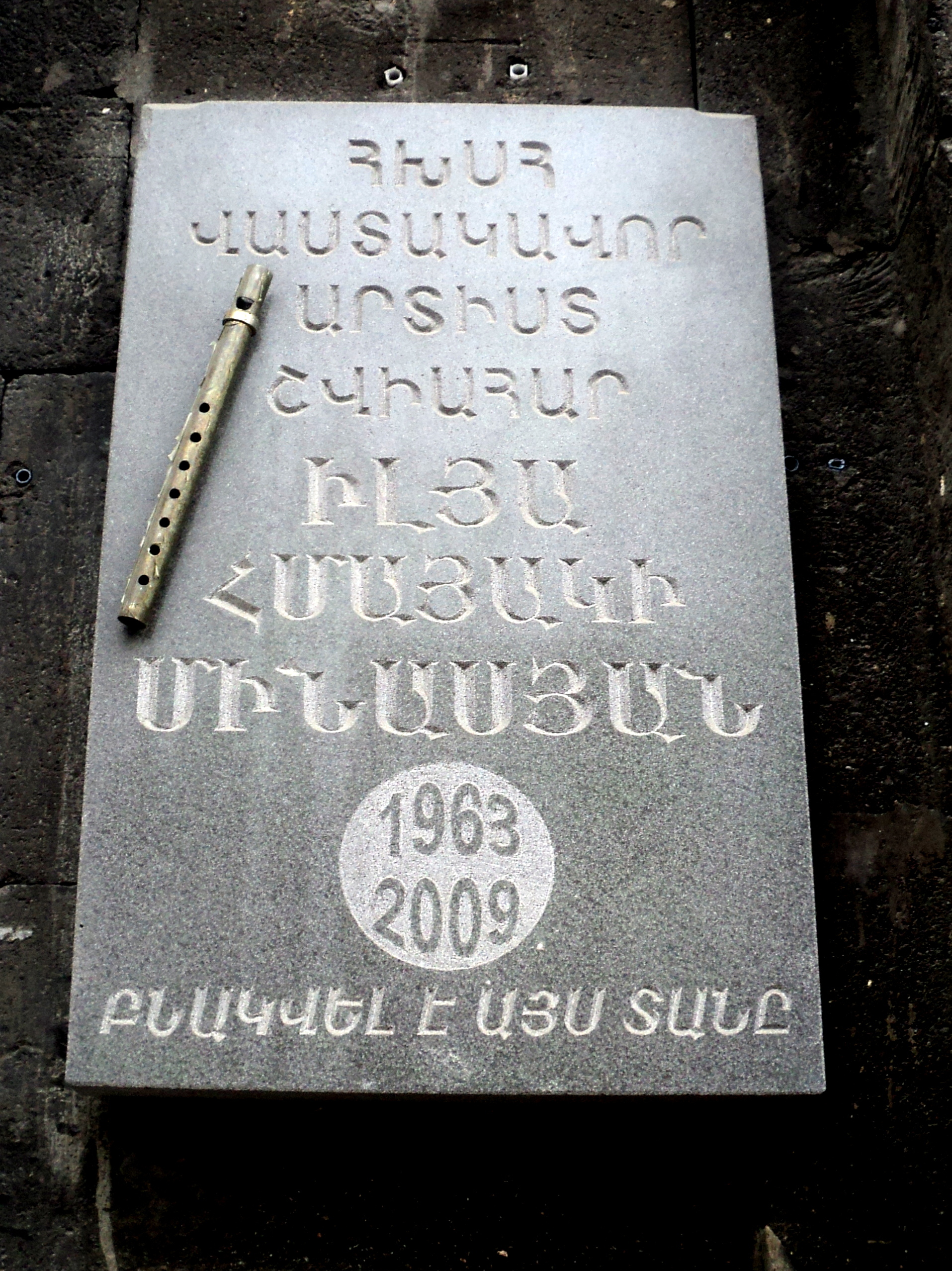 Ilya MInastan's Plaque Իլյա Մինասյանի հուշատախտակը Երևանի Աբովյան փողոցում